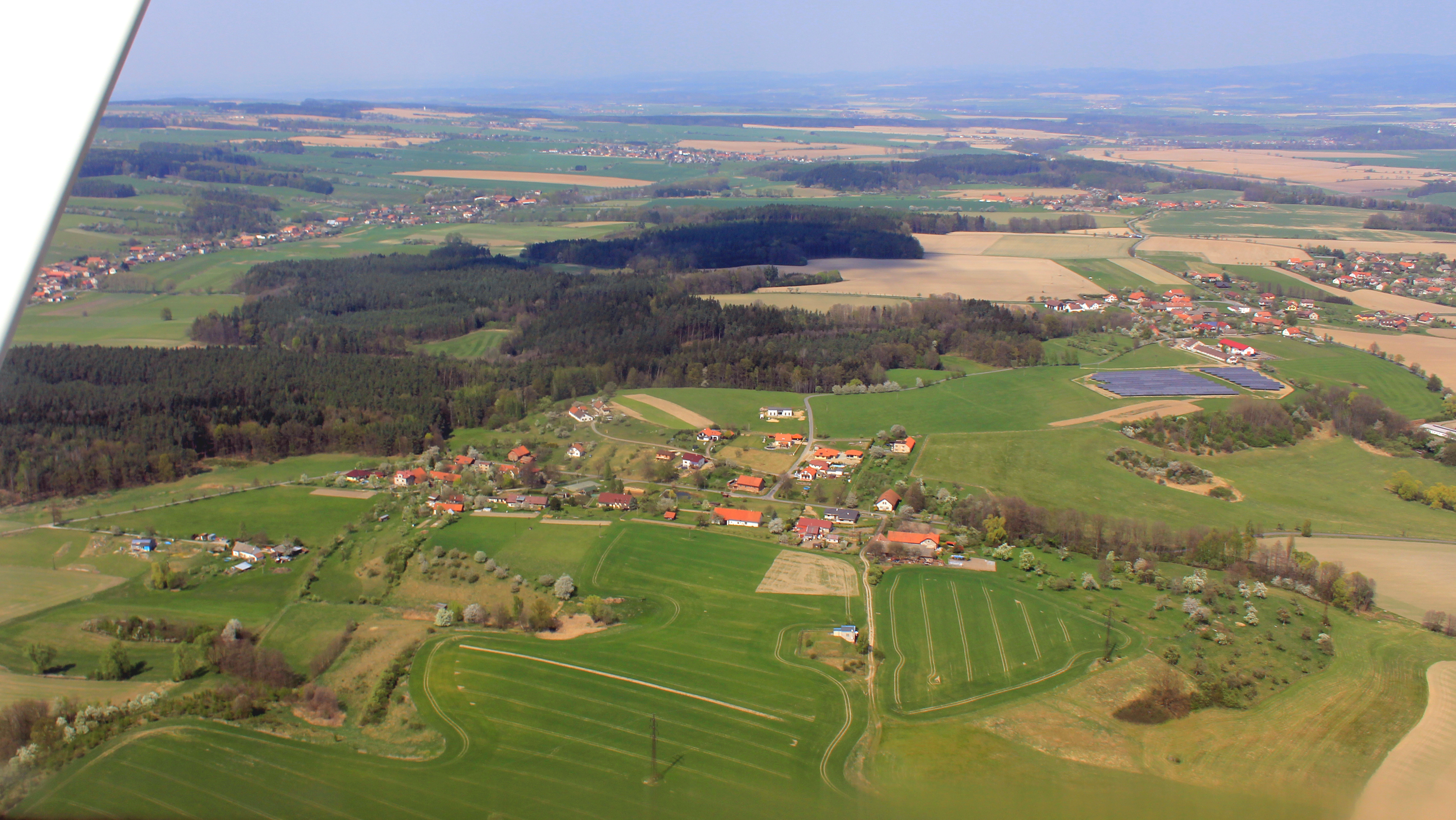 Paseky, part of small village Hřibiny-Ledská near of Častolovice from air, eastern Bohemia, Czech Republic